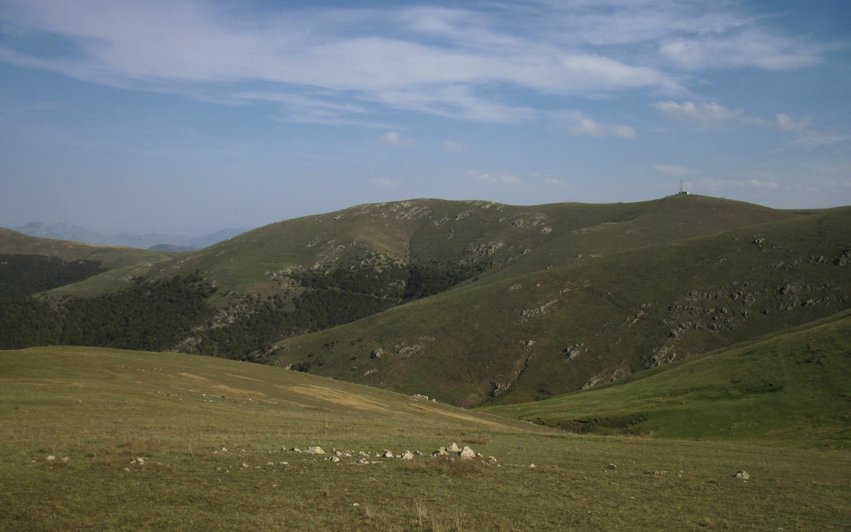 This is a photo of summer quarters of nomads from Tu Ali-ye Olya village.